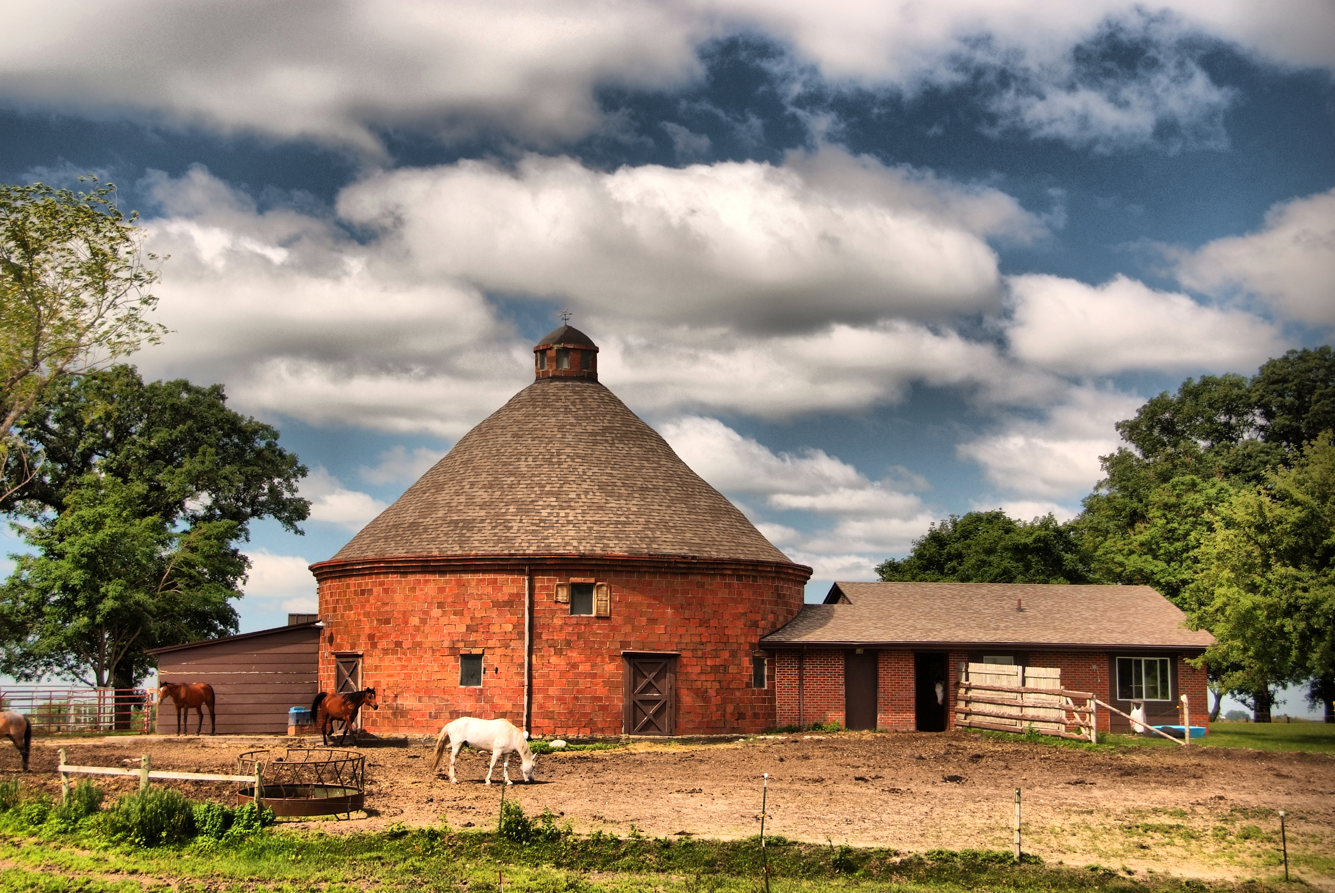 The T.T. Bowman Round Barn in Indian Creek Township, Story County, Iowa, United States. This is not the Octagon Round Barn, Indian Creek Township, located off County Road 14S south of Nevada, which is listed on the National Register of Historic Places. That was a wooden structure that is significantly deteriorated.